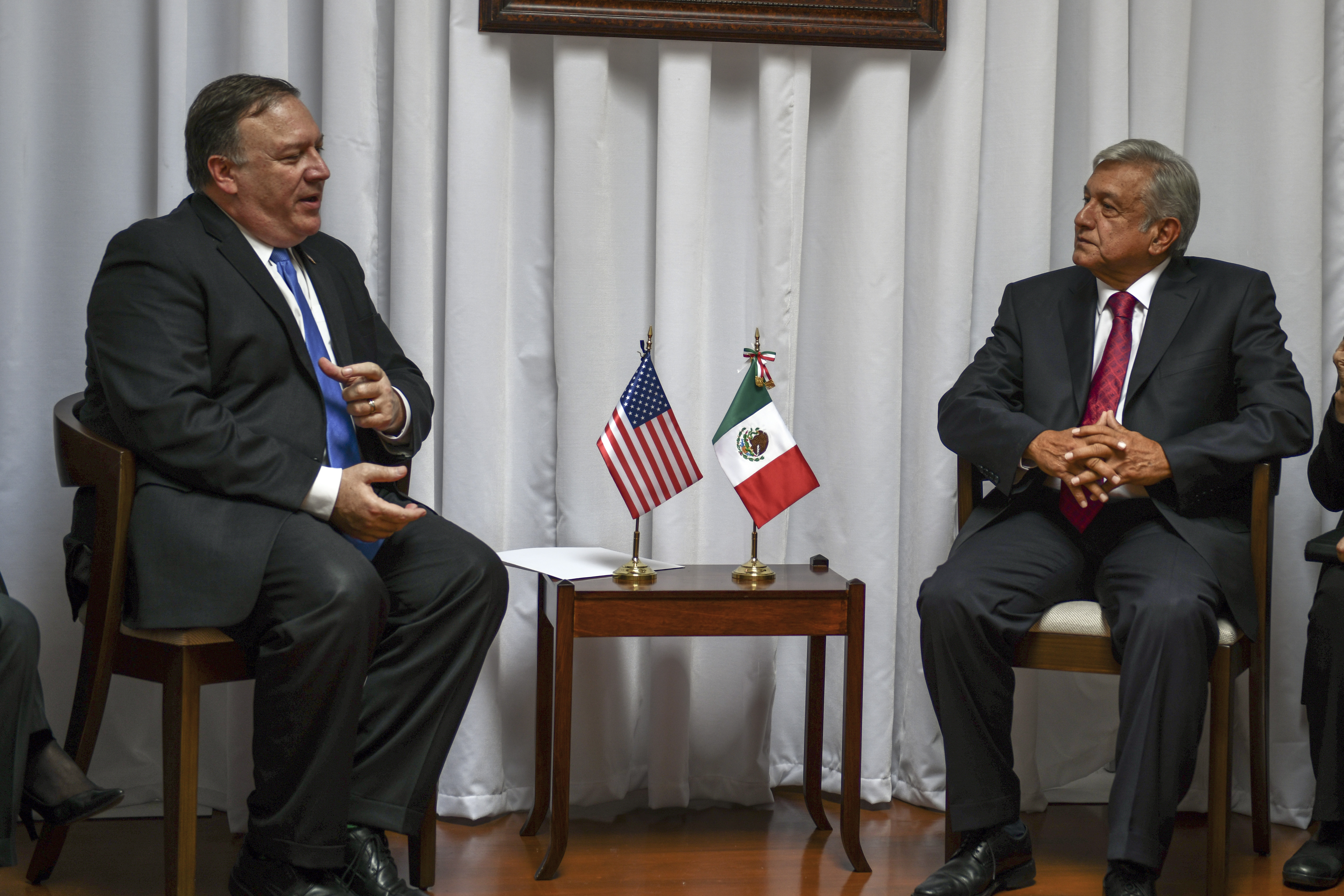 U.S. Secretary of State Michael R. Pompeo meets with Mexican President-elect Andres Manuel Lopez Obrador in Mexico City, Mexico on July 13, 2018. [State Department photo/ Public Domain]